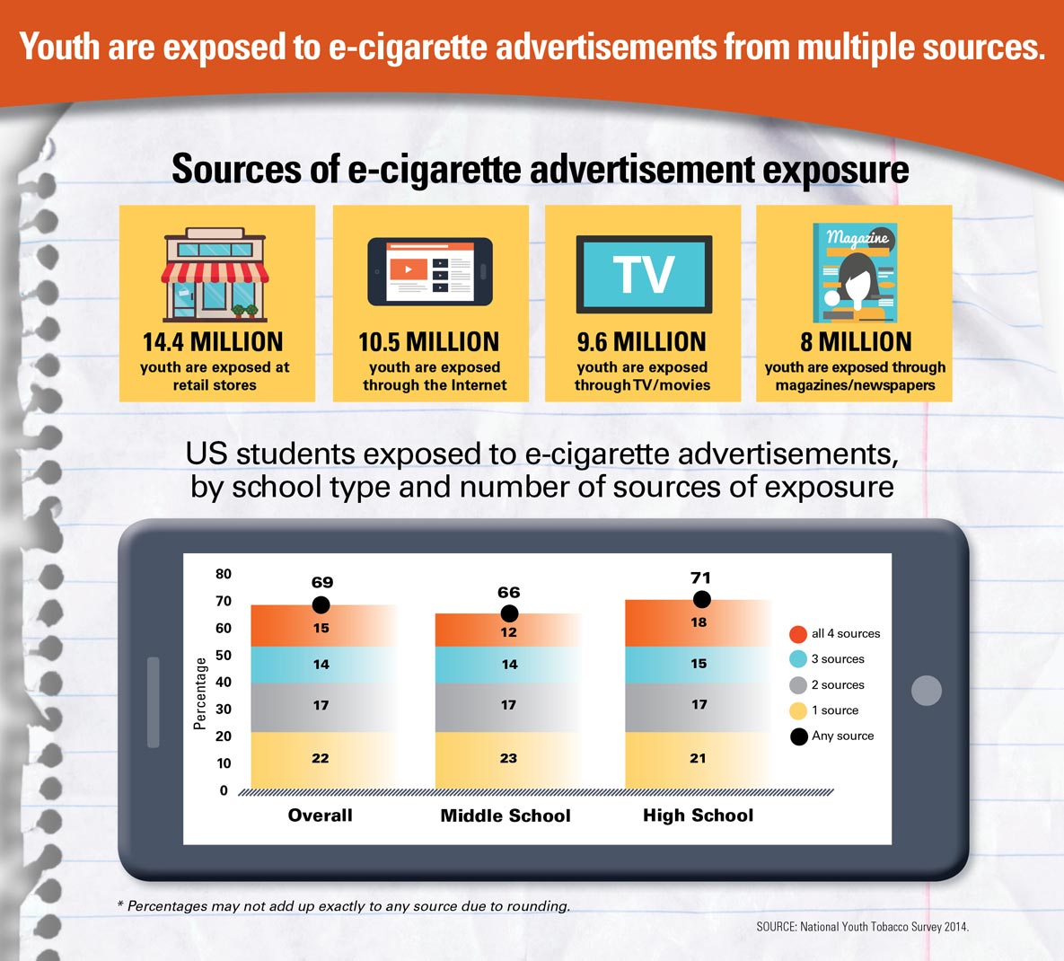 From the United States electronic cigarette marketing report